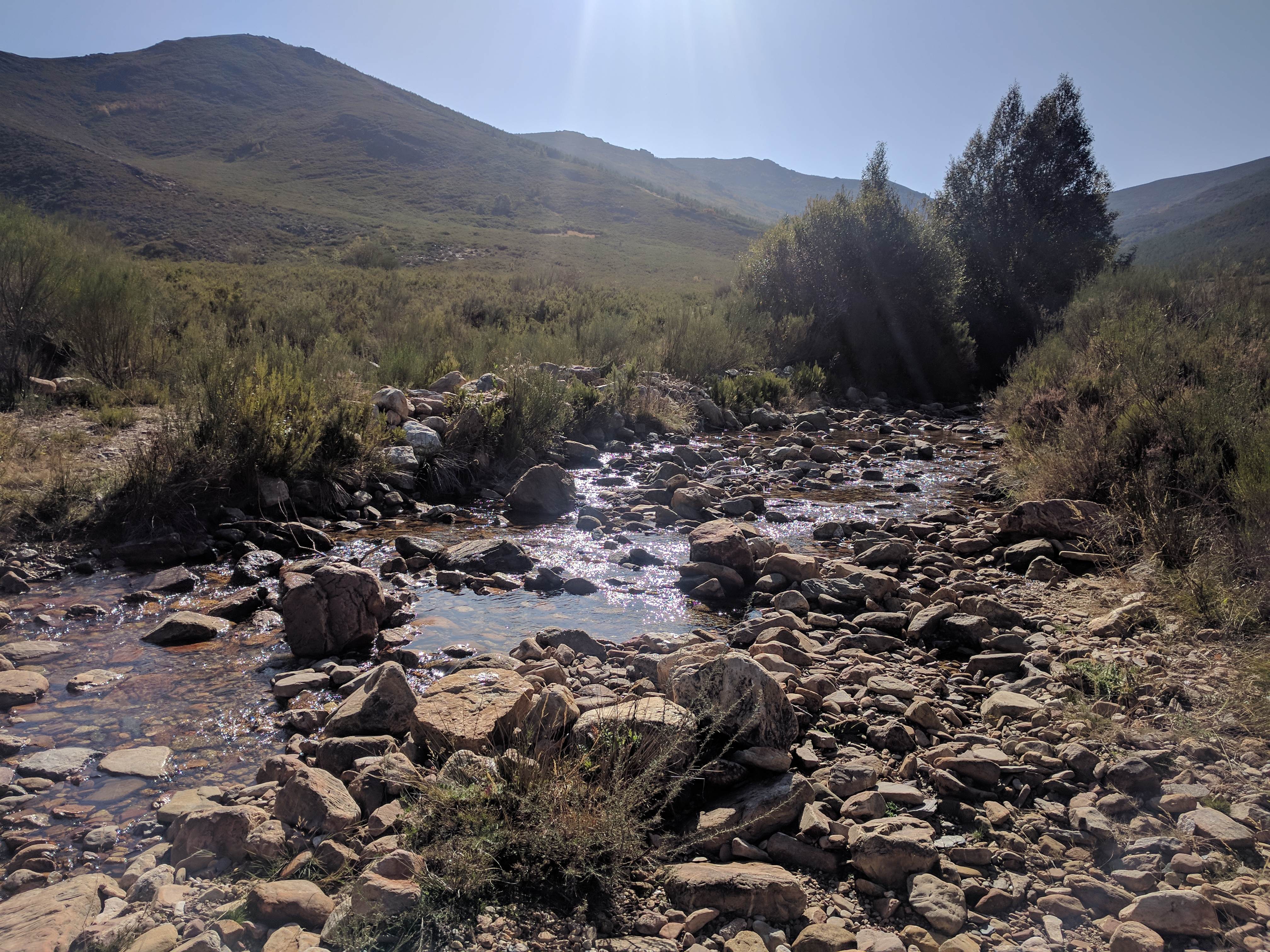 Río del Valle en Valdavido